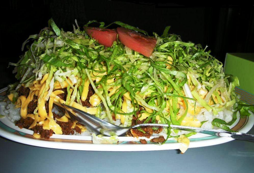 Taco Rice at Parlor Senri（Side view）